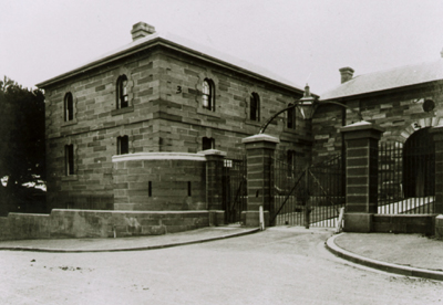 Historic photo of Maitland Gaol Governors House. Maitland , NSW, Australia.